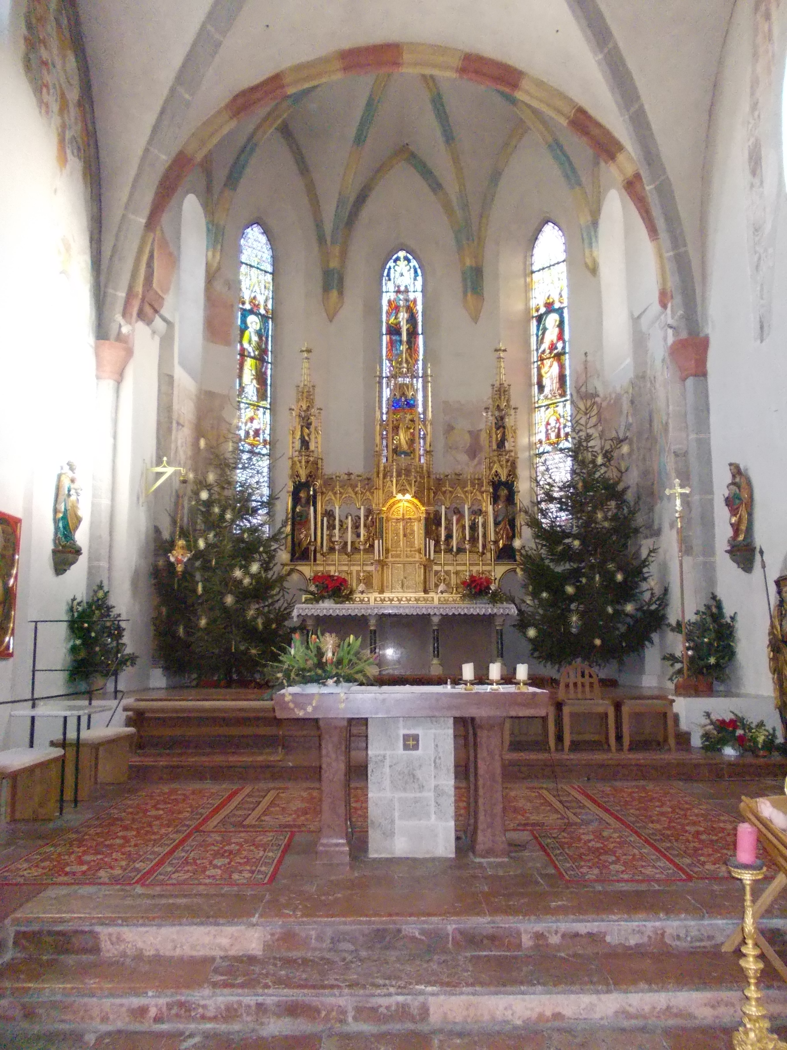 Saint Hippolytus Church (Zell am See)